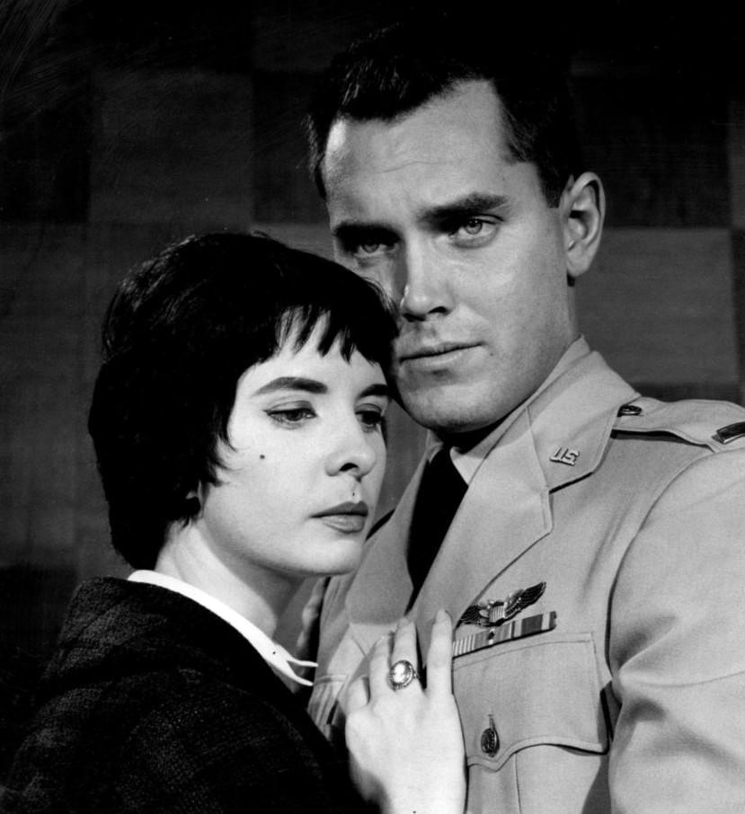 Photo of Margaret O'Brien and Jeffrey Hunter from the television program Pursuit. The episode is "Kiss Me Again, Stranger".